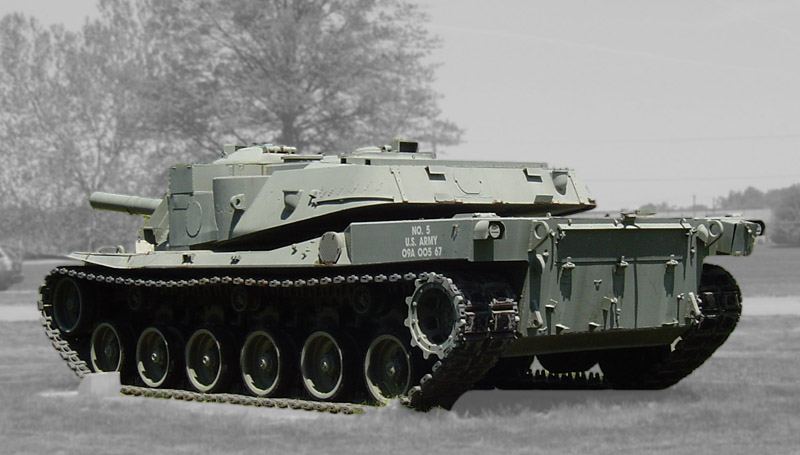 MBT-70 on display at the US Army Ordnance Museum in Aberdeen. The picture taken May 7, 2007.